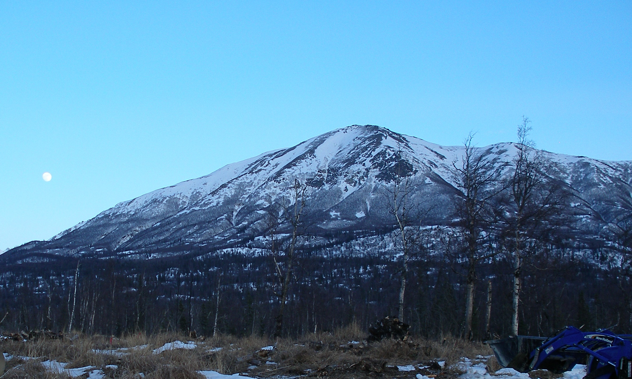 Photo of the West face of Lazy Mountain just after sunset as the moon is rising.